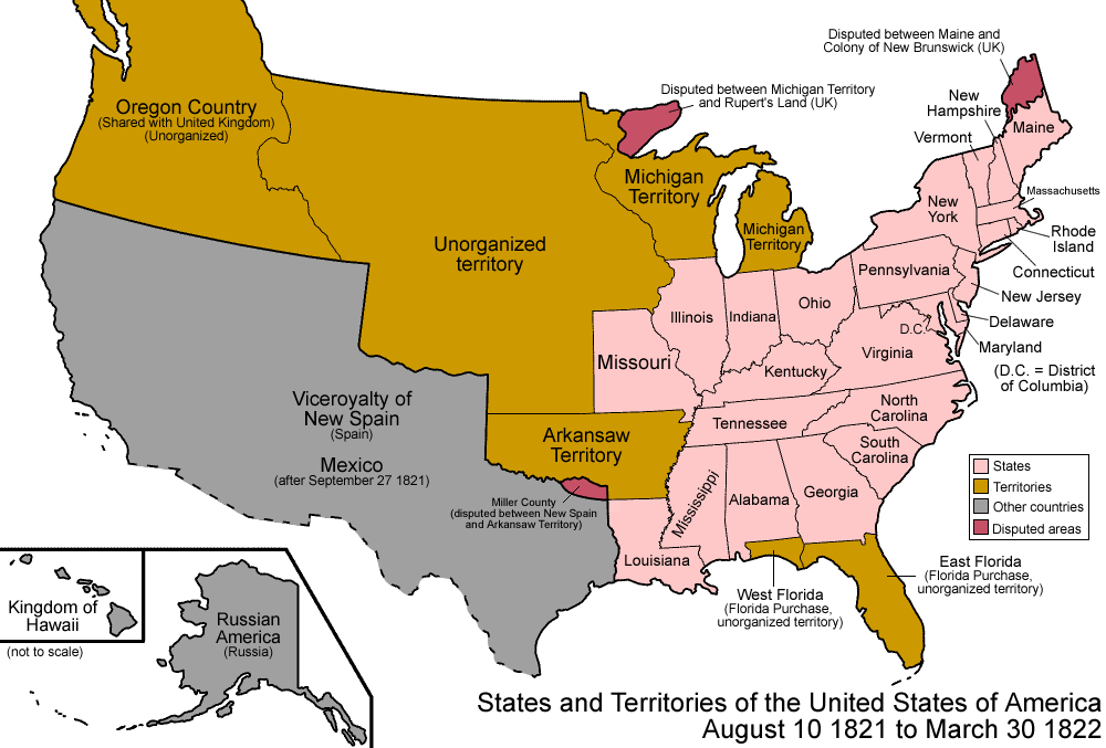 Map of the states and territories of the United States as it was from August 1821 to 1822. On August 10 1821, part of Missouri Territory was admitted as the state of Missouri; the rest became unorganized. On March 30 1822, the two Floridas were organized as Florida Territory. Sometime during this period, the spelling of Arkansaw Territory changed to Arkansas Territory. Also, on September 27 1821, the Viceroyalty of New Spain achieved independence as Mexico.